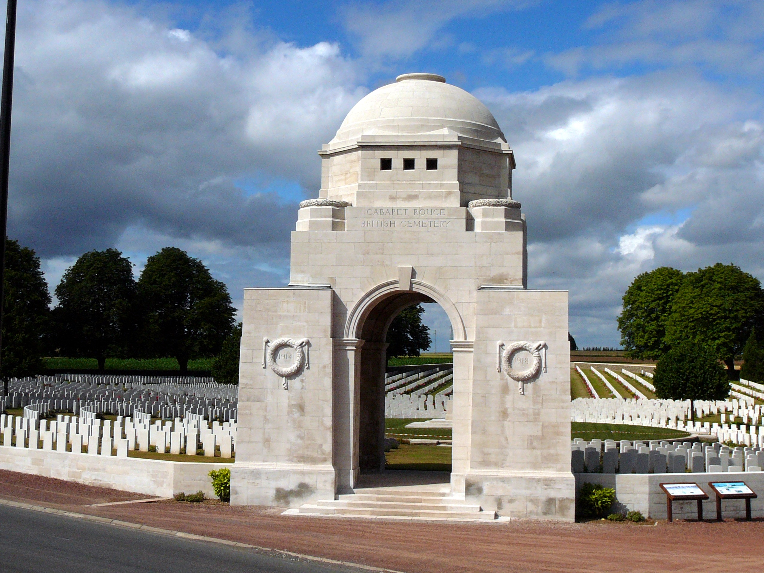 Image of the Cabaret Rouge British Cemetery, Souchez, France. The cemetery lies at the south end of Souchez, on the D937 national route from Béthune in the direction of Arras.Link to the Dedication plaque just inside the monument.